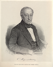 Cornelis Pruijs van der Hoeven (1792–1871}, physician from the Netherlands